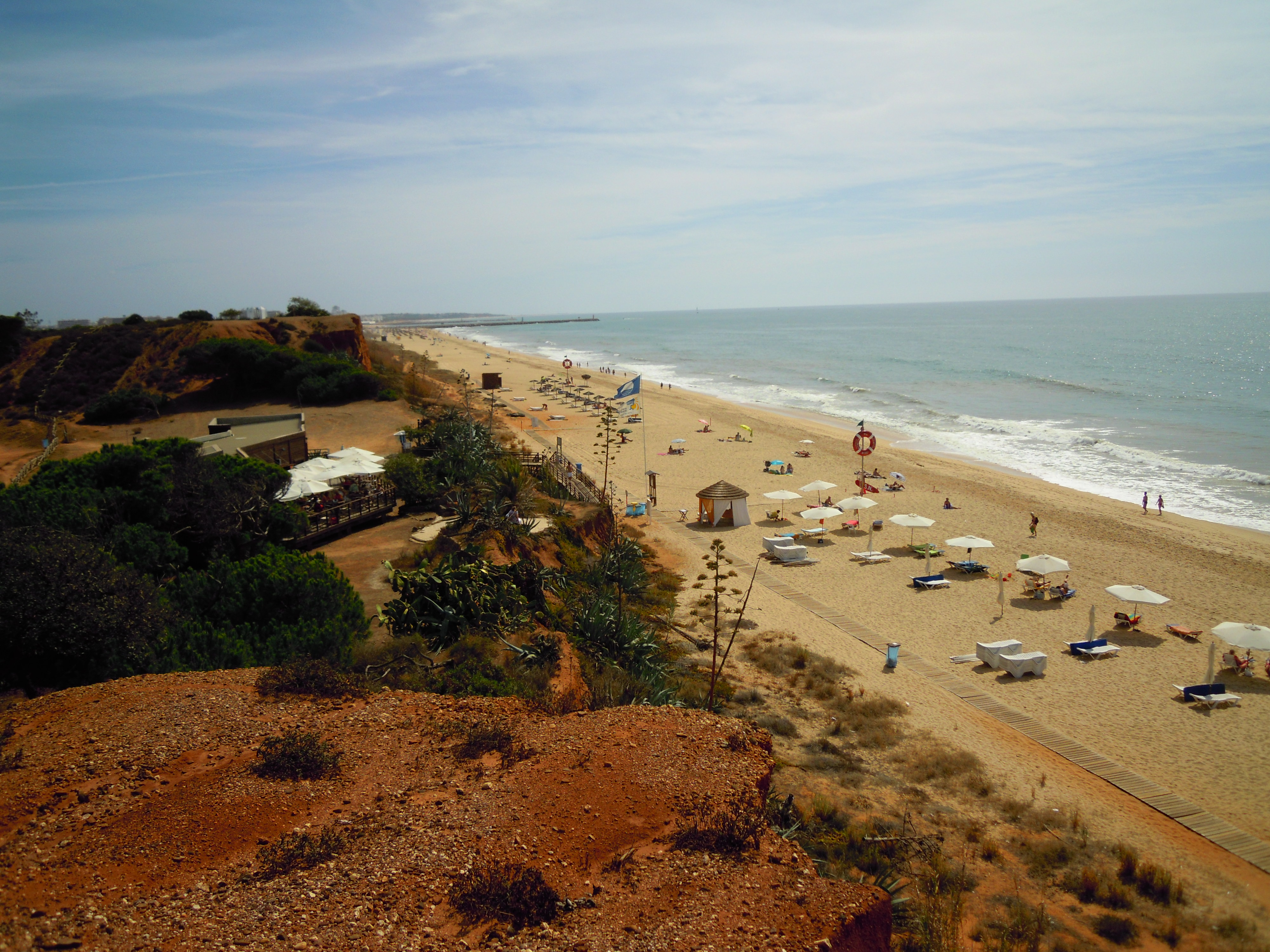 Photograph of the beach Praia da Rocha Baixinha, Albufeira, Algarve, Portugal